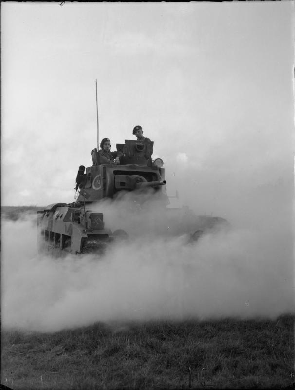 IWM caption : A Matilda tank of the 49th Royal Tank Regiment advances through a smoke screen during an exercise near Dover, UK.